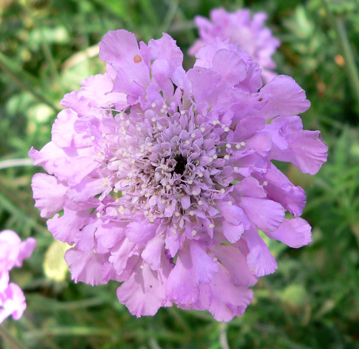 Photo of Scabiosa columbaria 'Pink Mist' in bloom at the Desert Demonstration Garden in Las Vegas, Nevada